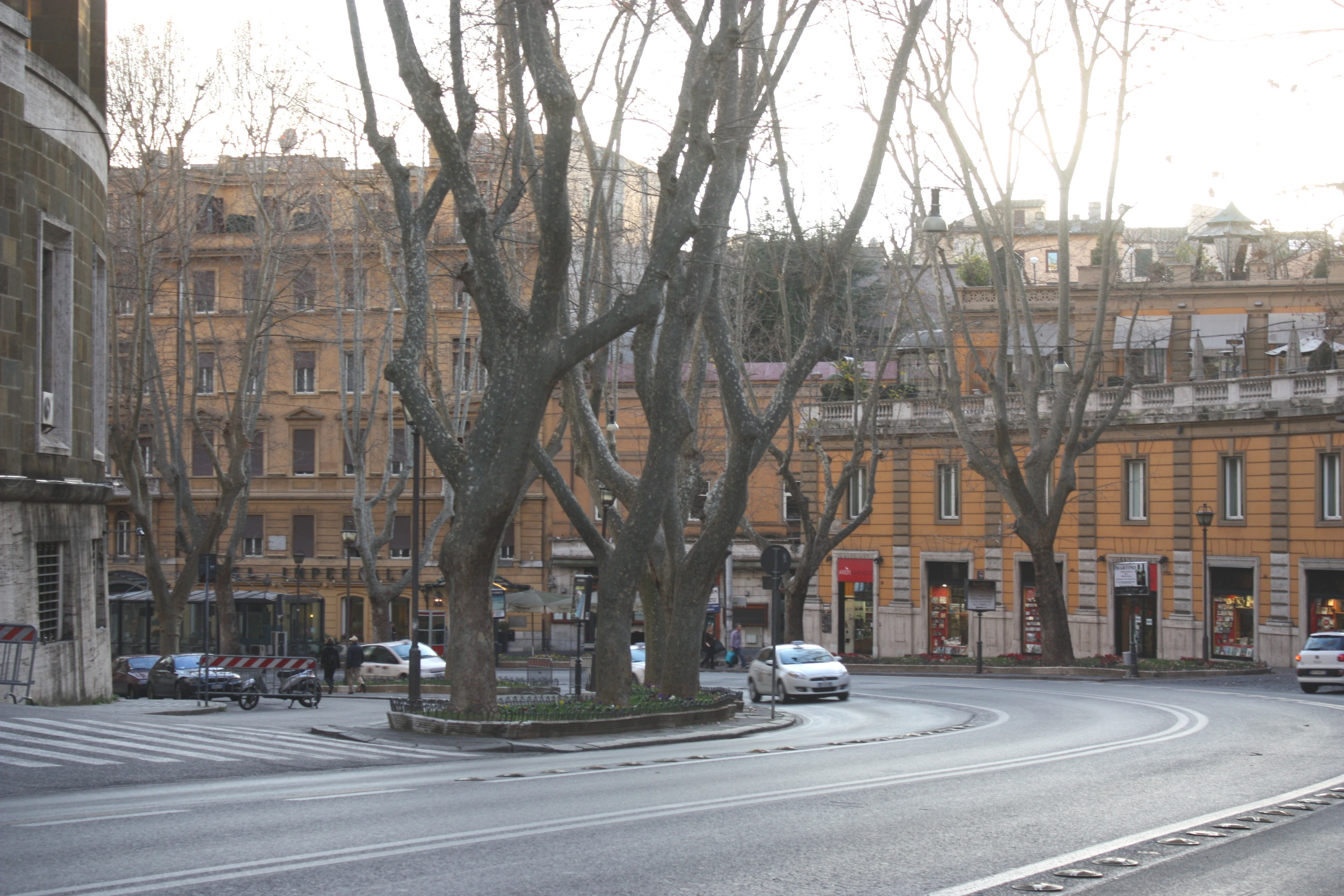 Rome, the street Via Vittorio Veneto